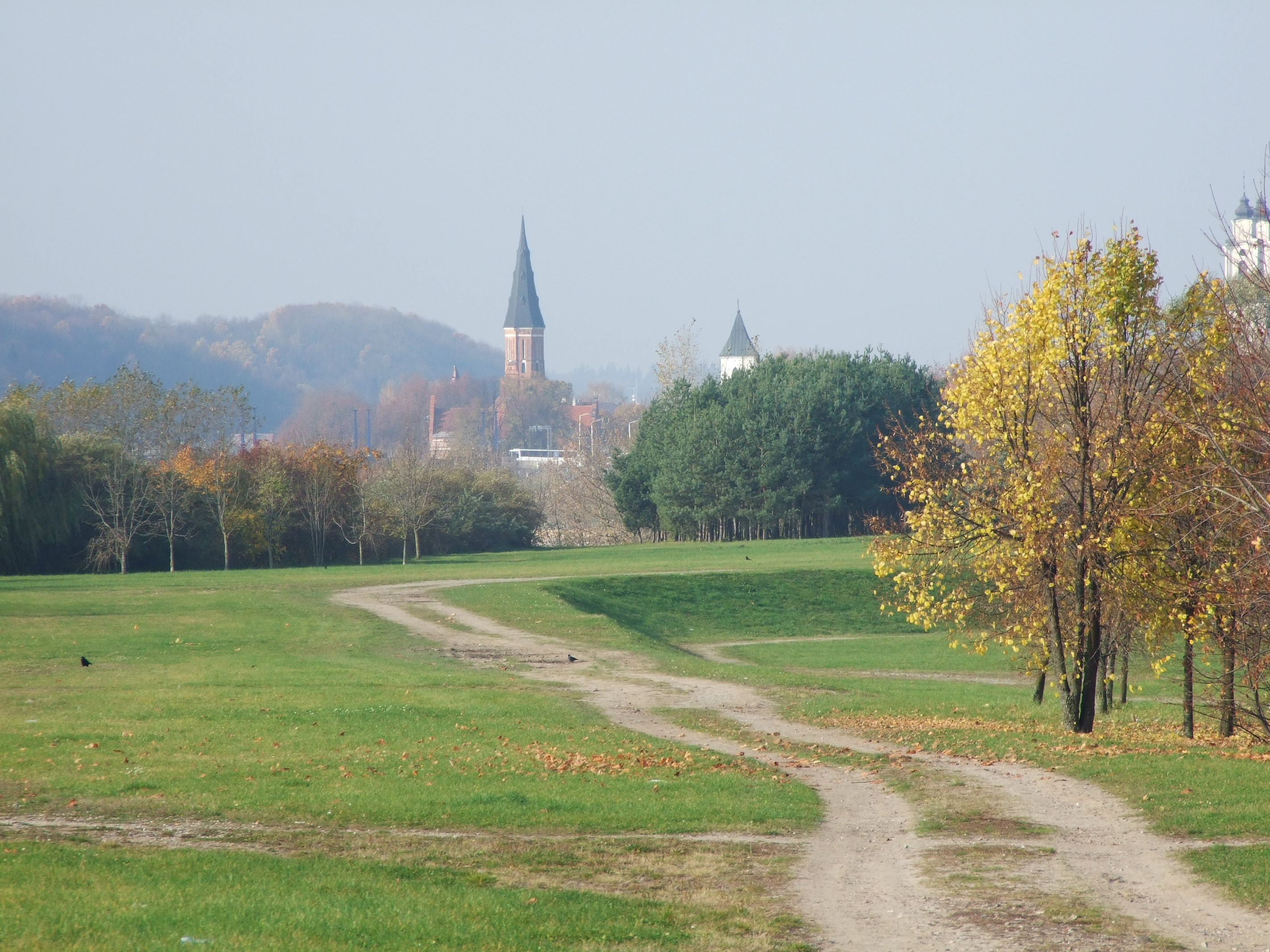 Kaunas view from Nemunas island.